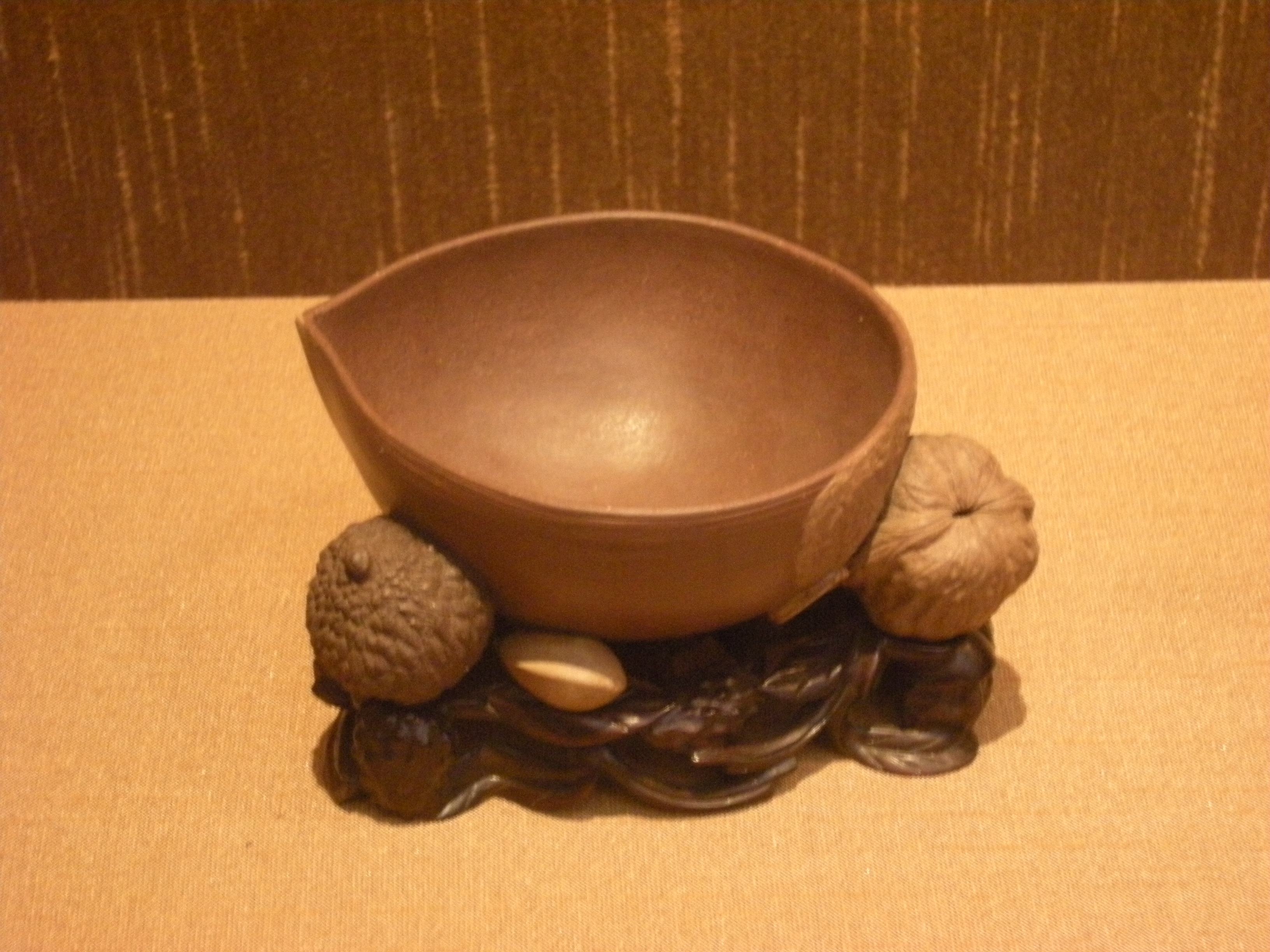 “Zisha”washer in the shape of dried fruits.(made by Chen mingyuan) in Suzhou museum。 Period：Qing Dynasty 中文（中国大陆）: 苏州博物馆藏清代陈鸣远款紫砂干果洗陈鸣远，原名陈运，宜兴人，康熙时最有影响的陶艺大家，技艺精湛，塑镂兼长。开创壶体镌刻诗铭做装饰，署款以刻铭和印章并用，将传统绘画与书法艺术引入紫砂铭壶制作工艺，使壶艺、品茗和文人风雅情致融为一体，还擅塑造士人案头摆件及象生果品，惟妙惟肖。